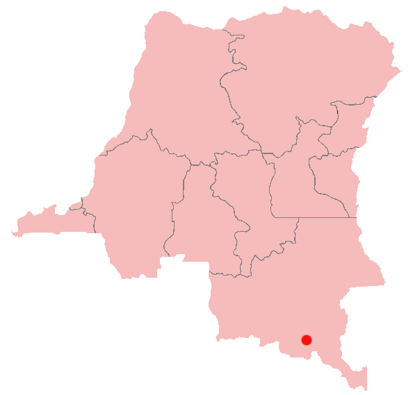 Likasi, Democratic Republic of the Congo Location Map; created with the GIMP. Made by User:Acntx.